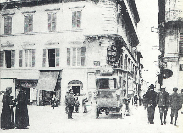 Trolleybus in L'Aquila